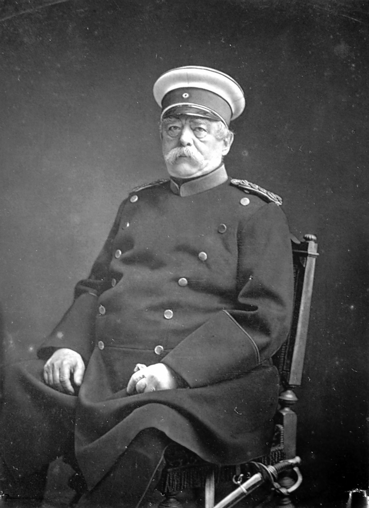 Otto Fürst von Bismarck